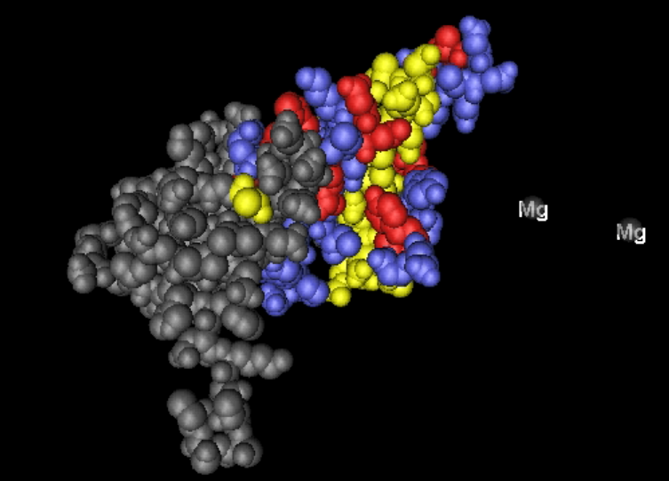 Chain A, Crystal Structure Of The Histone Methyltransferase Set79 and MORN1 repeat highlighted